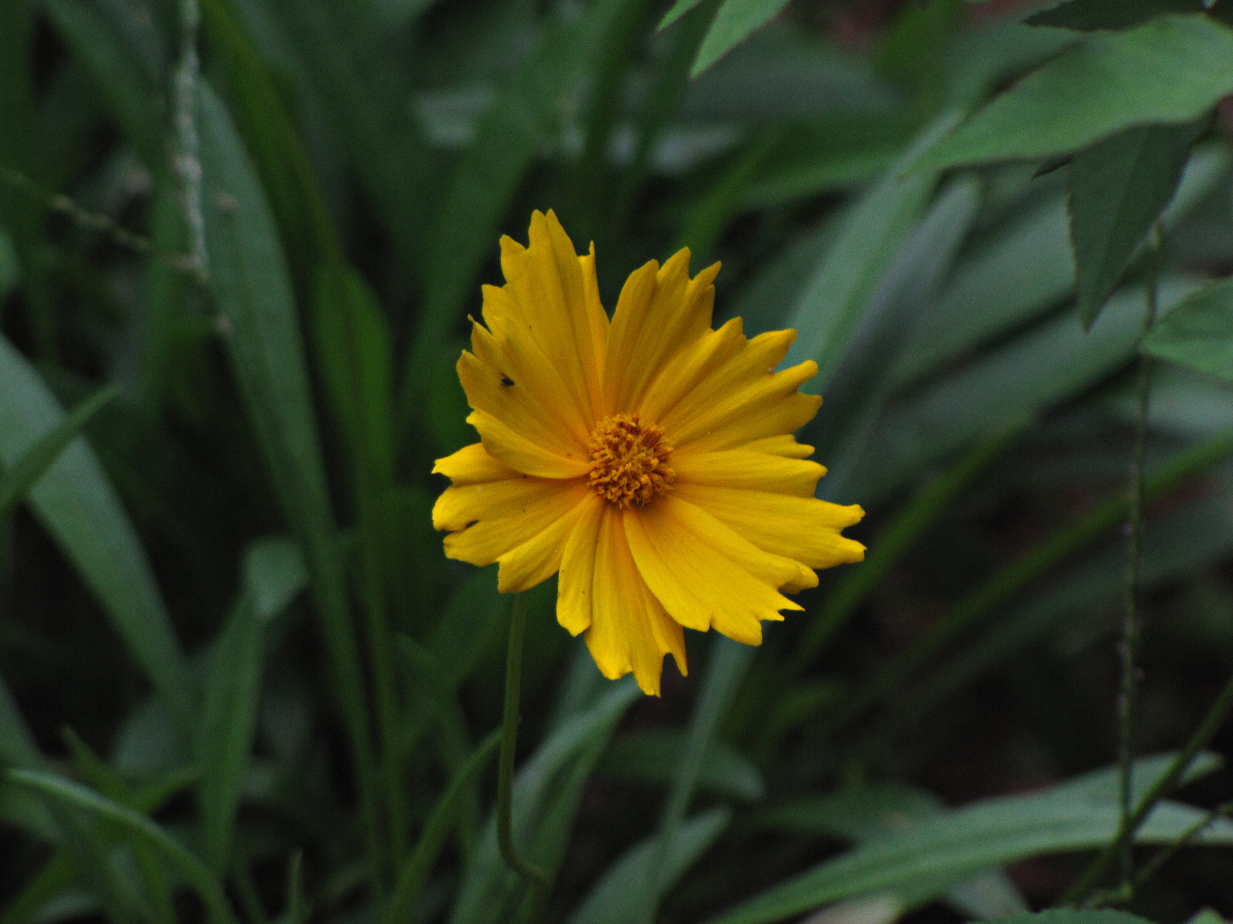 Coreopsis auriculata from Kanhangad, Kasargod